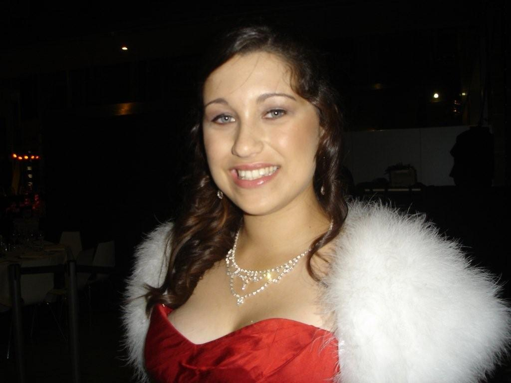 Grace Bawden after a performance